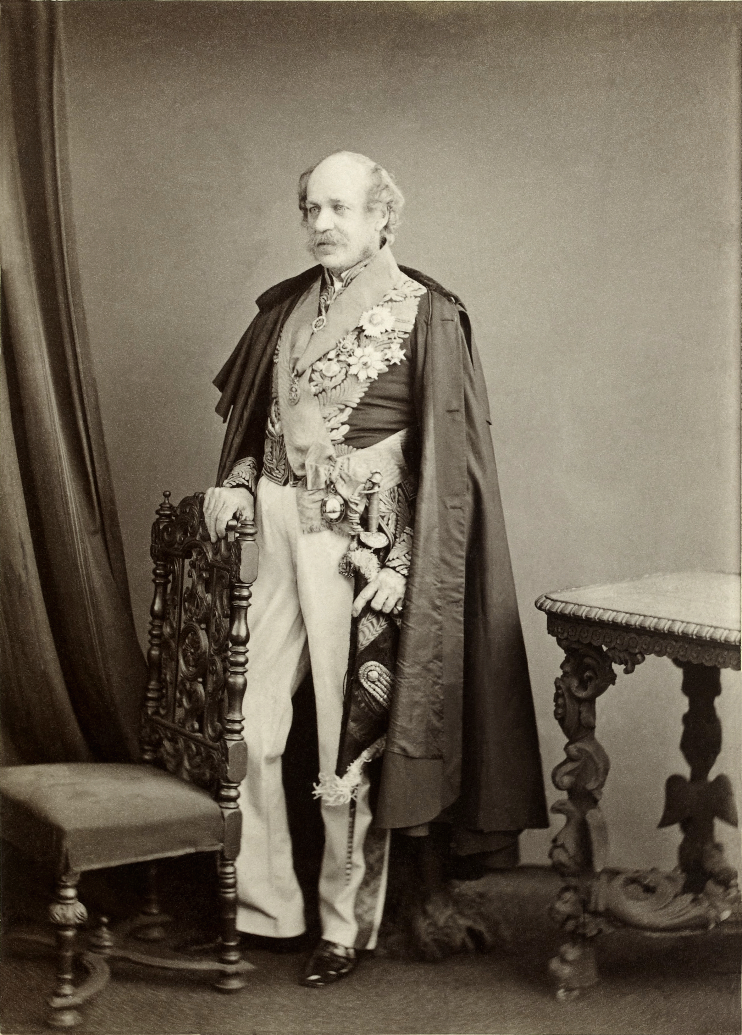 Major-General sir Henry Creswicke Rawlinson (1810 - 1895), british officer, diplomat and orientalist, sometimes described as the Father of Assyriology.